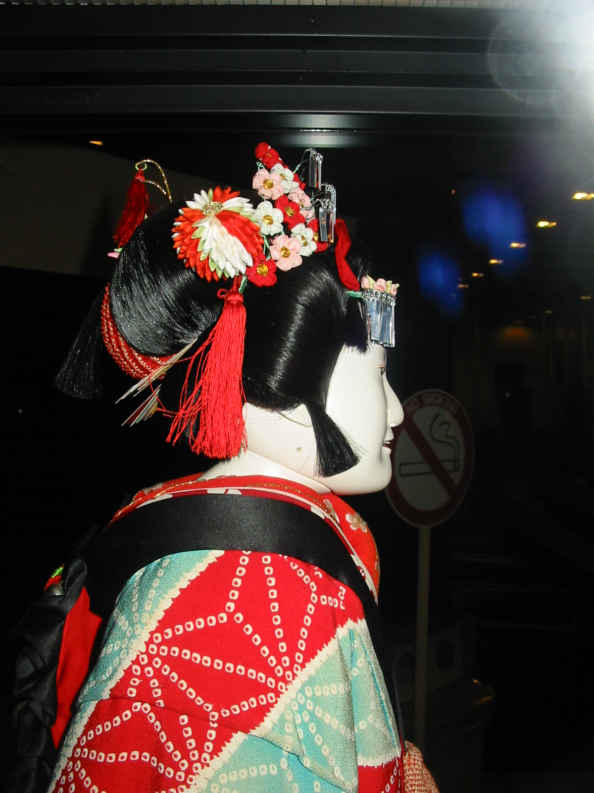 Bunraku_doll_in_national_theatre_Osaka